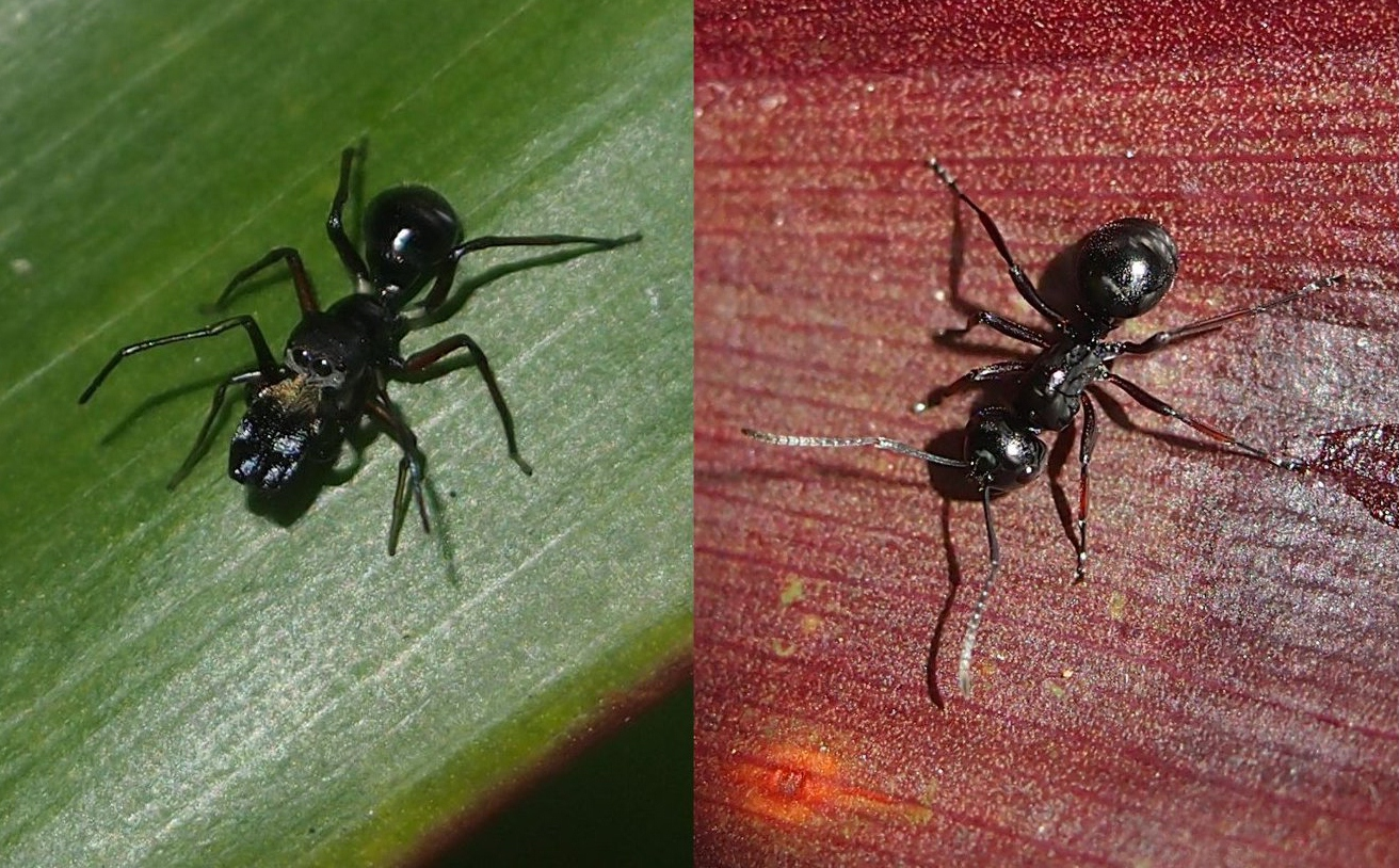 Ant Mimic Spider, Myrmarachne' sp. male (left) with a worker Rattle Ant Polyrhachis australis the ant species that the spider mimics